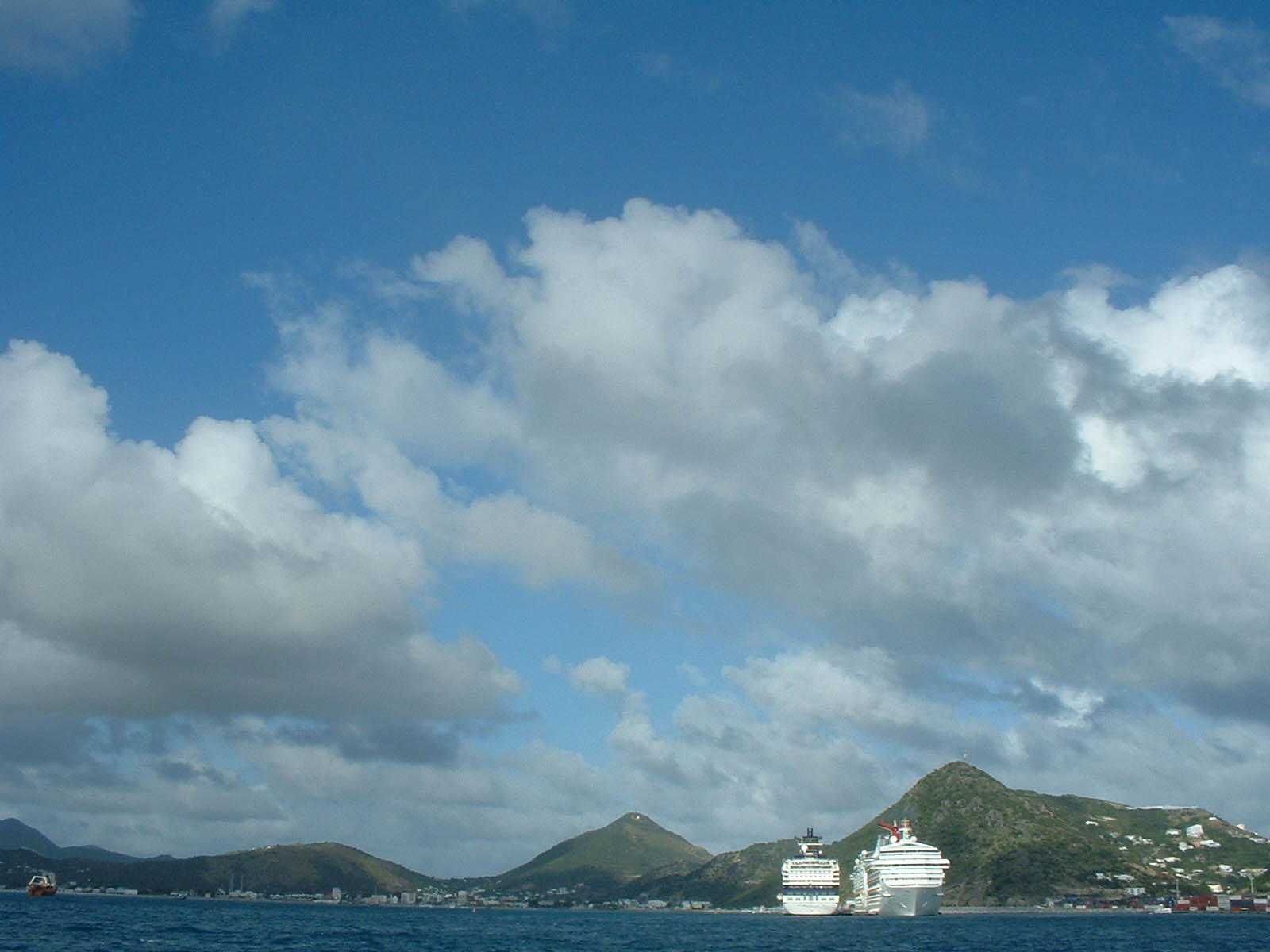 Dutch Side of St. Martin on December 29, 2004, viewed from a catamaran.